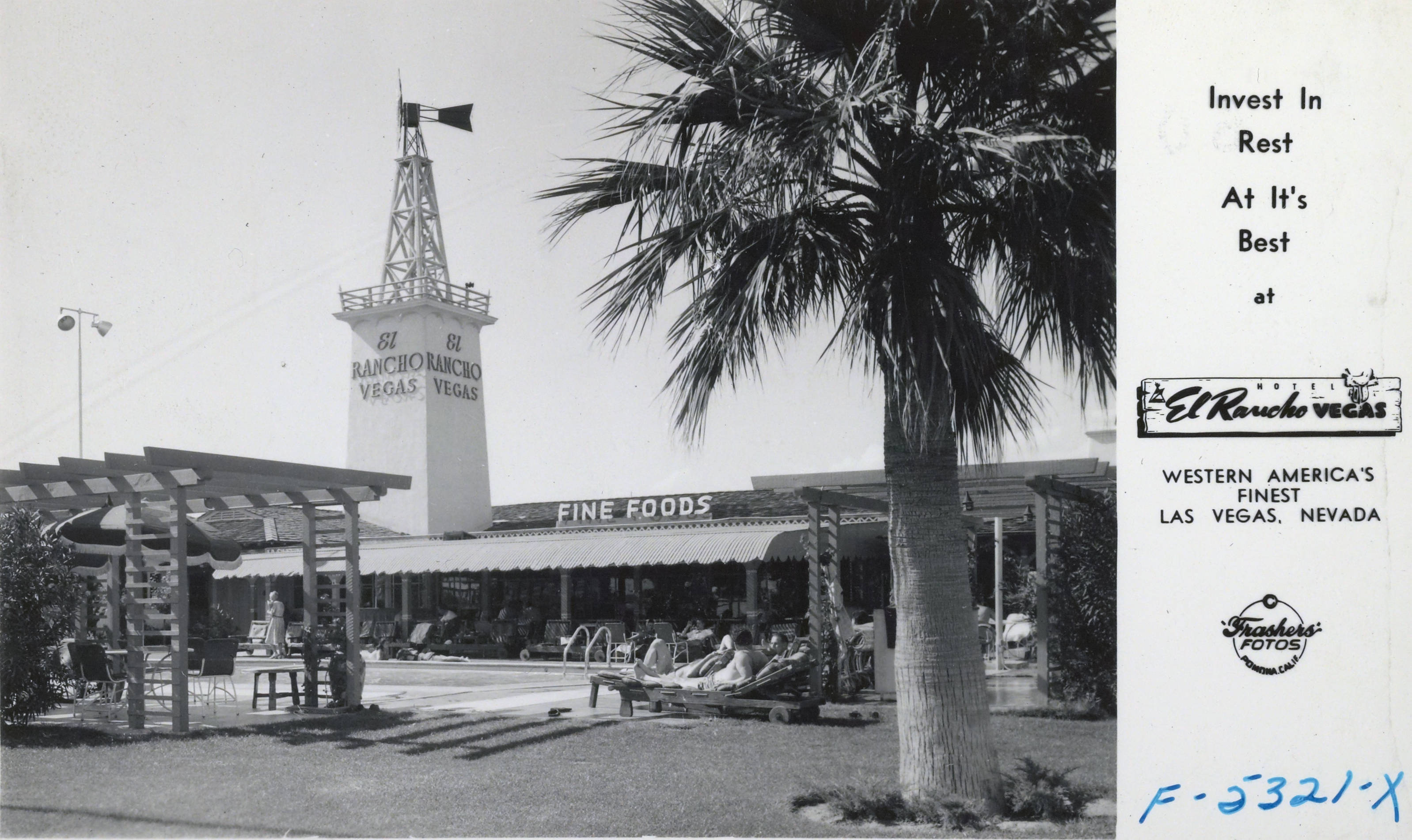 Frasher Foto postcard showing the El Rancho Vegas, Las Vegas, circa 1940s